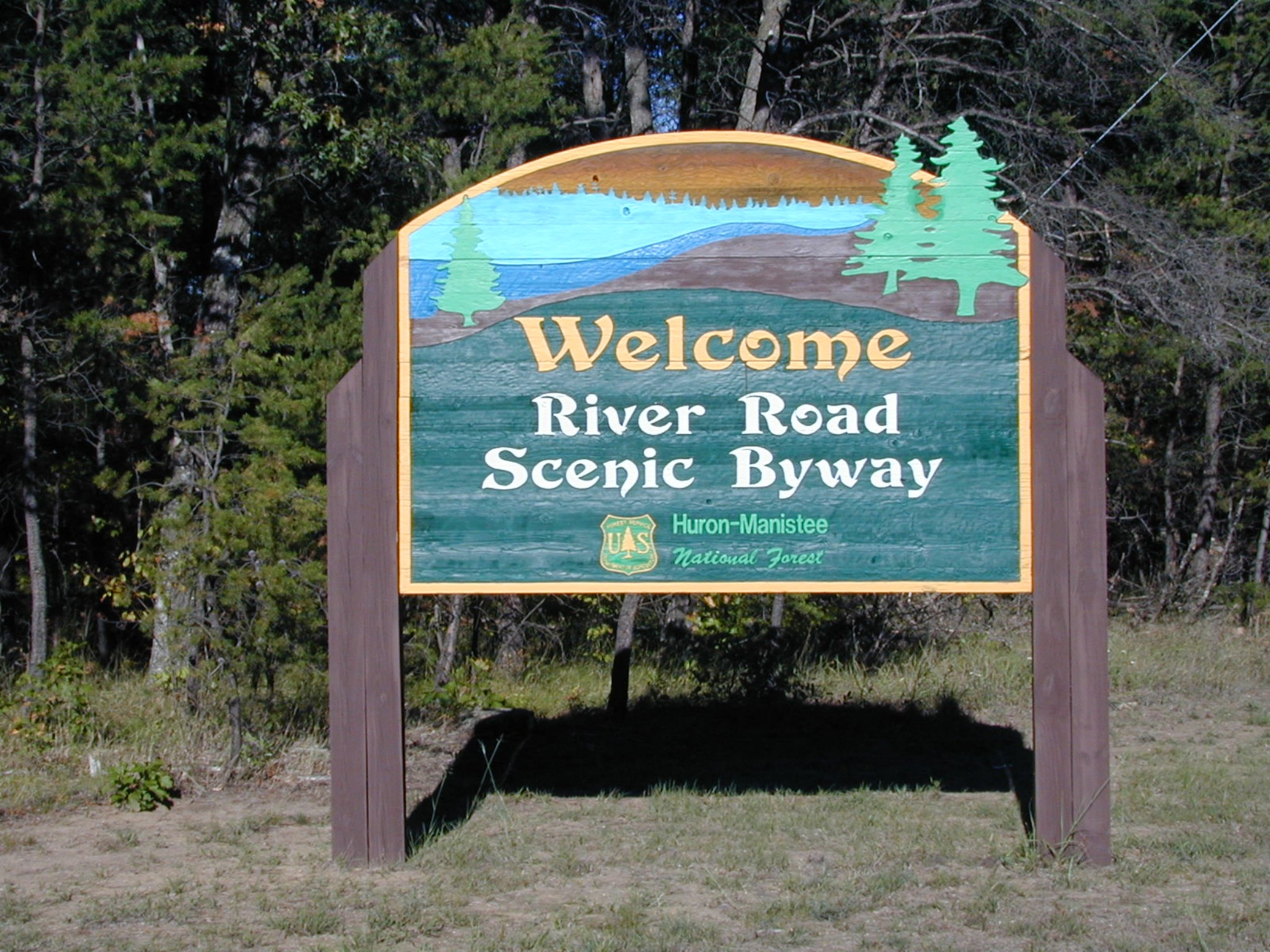 Bright, bold signs welcome visitors to River Road National Scenic Byway and National Forest Scenic Byway and the Huron-Manistee National Forests. The unique signing along the River Road section of Michigan highway M-65 lets travelers know they are entering a special area within the forest.